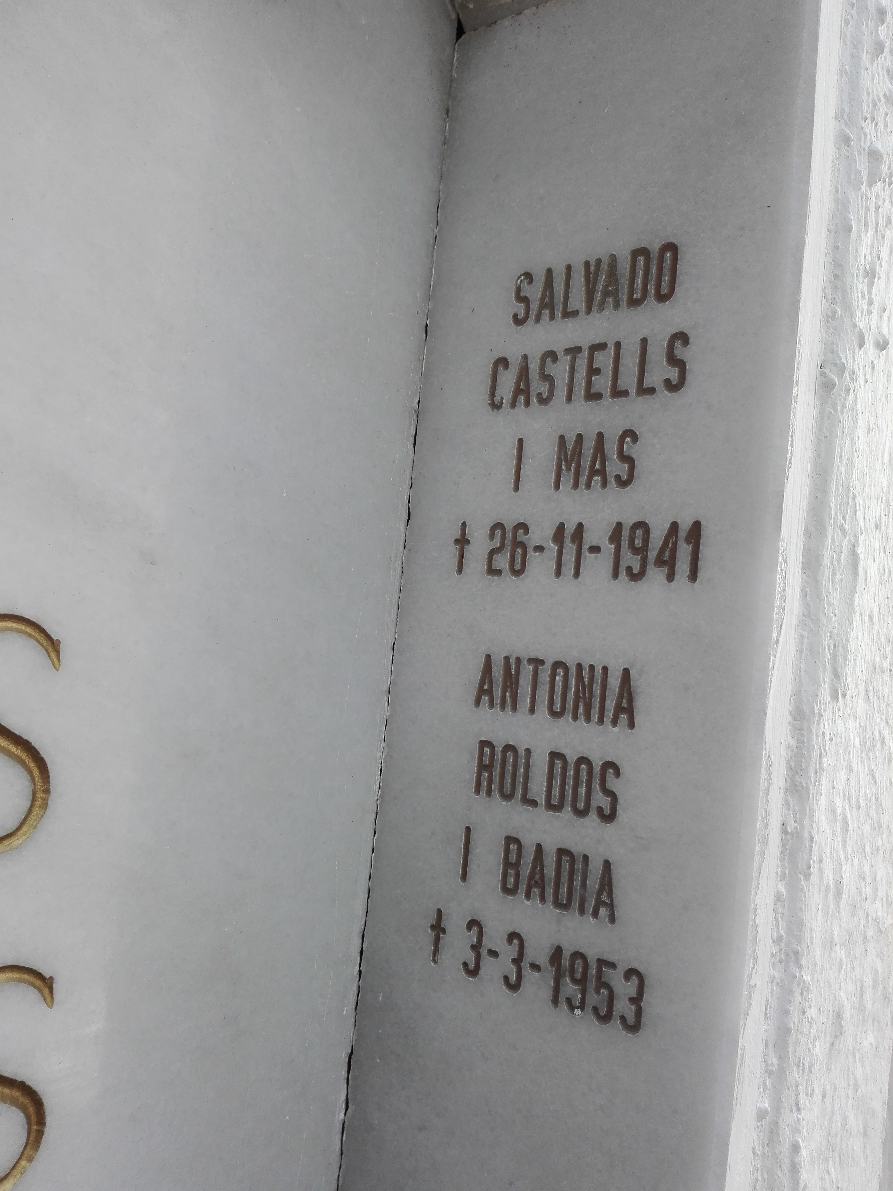 Lateral of Salvador Castells i Mas grave.